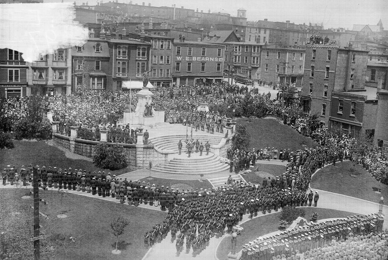 Unveiling the National War Memorial, St. John's, 1924